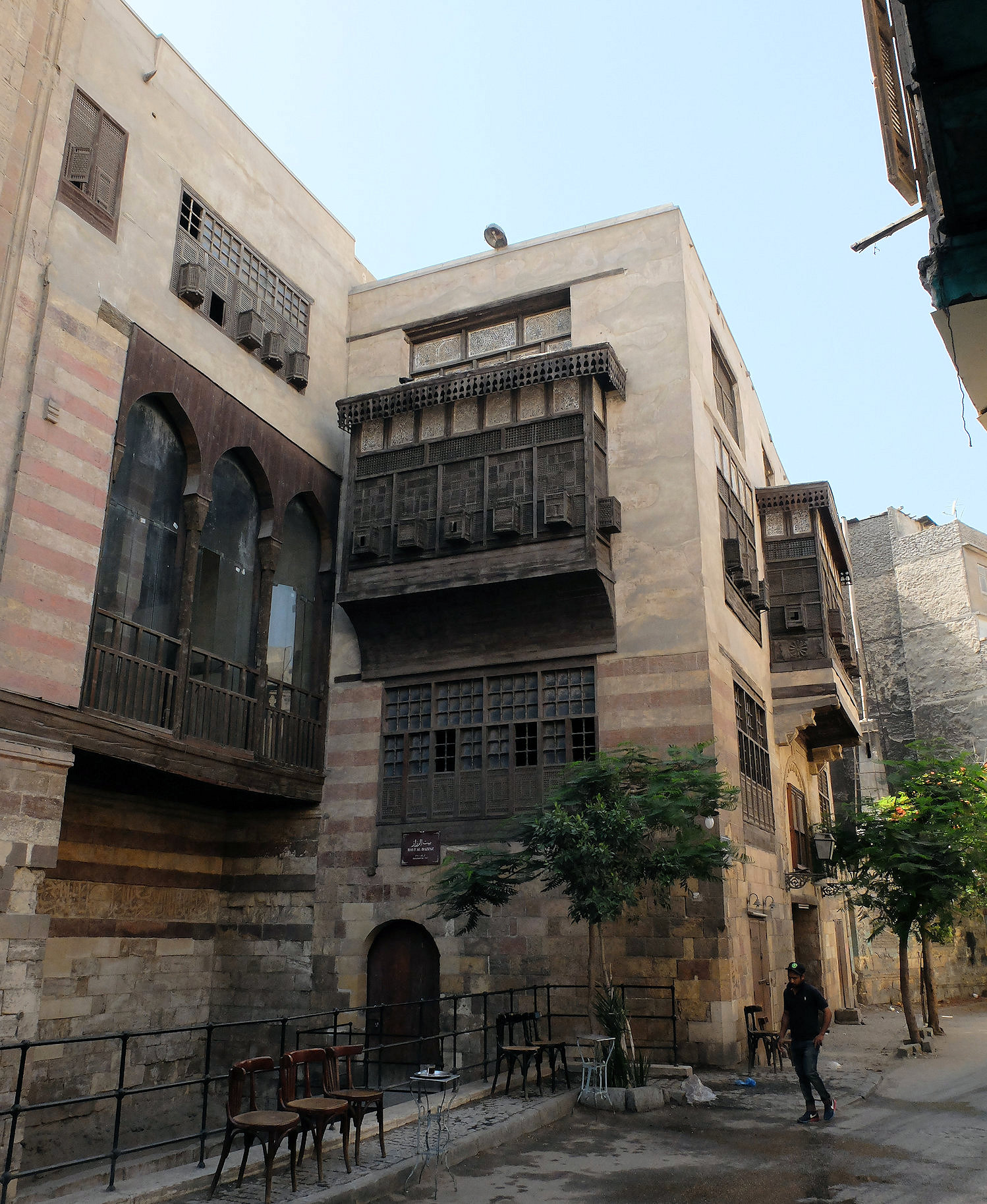 Bayt al-Razzaz on Darb al-Ahmar in Cairo. The madrasa of Umm Sha'ban is just off-frame to the left.